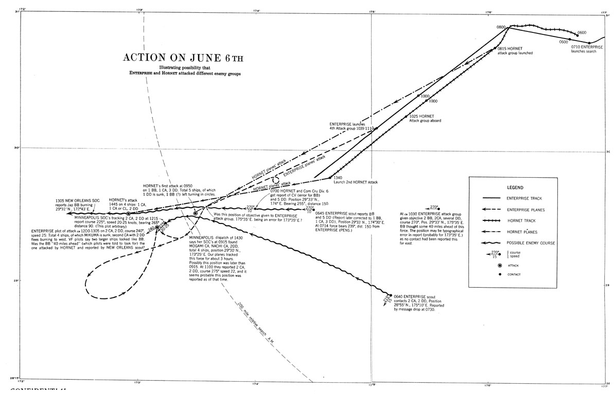 US Navy 1943's view (via Combat Naratives) of operations against retreating Japanese "battleship" and cruisers during the Battle of Midway, June 6, 1942. In fact these two groups (one around "BB" and second around "CA") were one and the same: Misidentificated heavy cruisers Mogami and Mikuma sailing together.